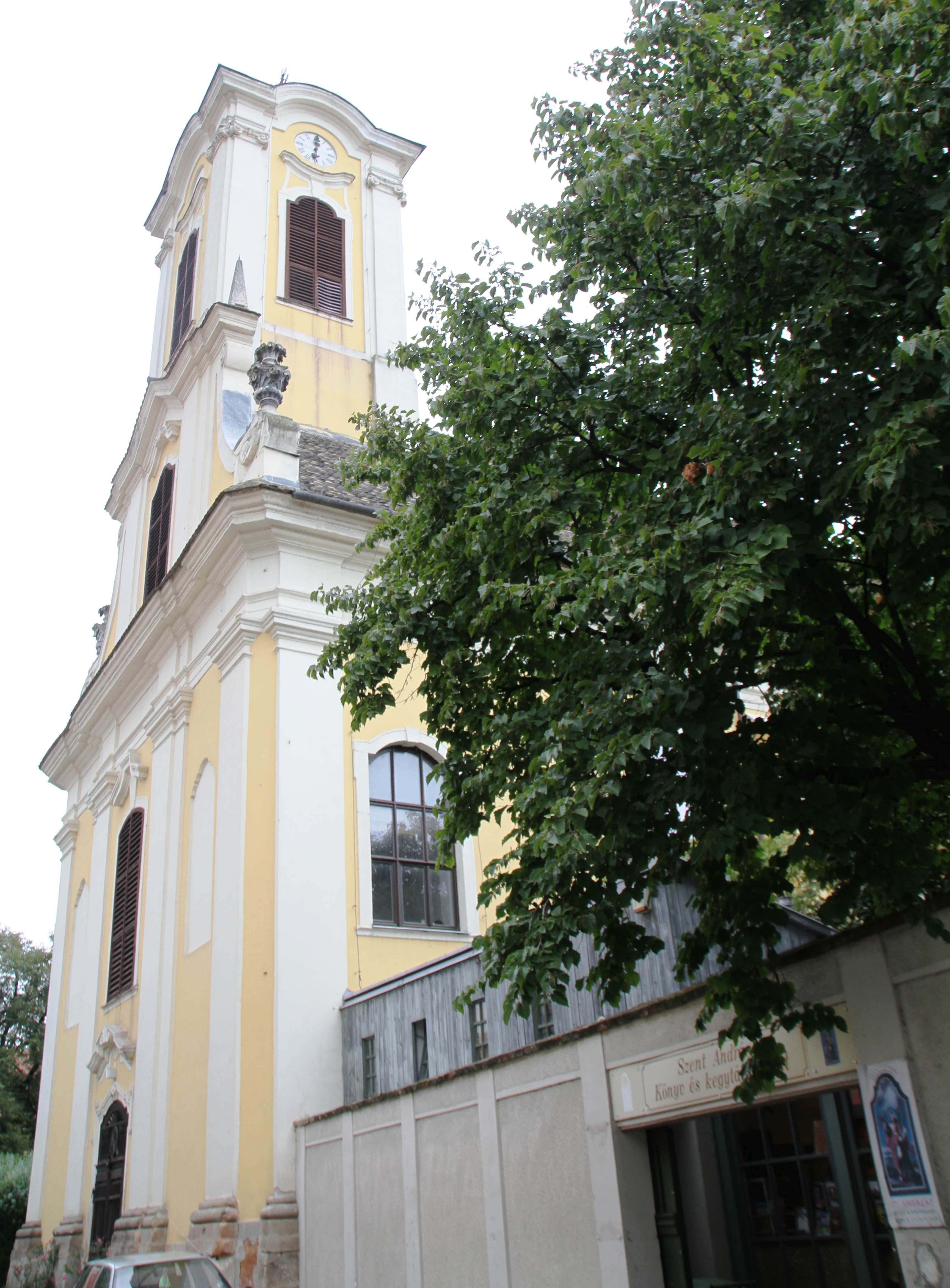 Peter and Paul roman catholic Church of Szentendre, Hungary